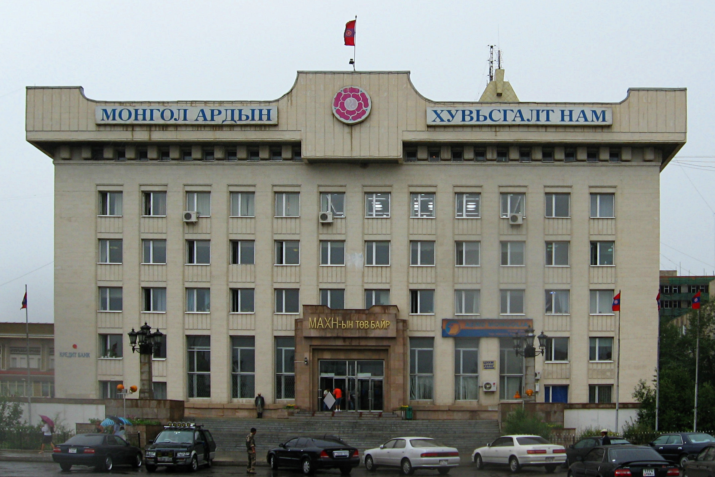 Building of the Mongolian People's Revolutionary Party, Ulaanbaatar